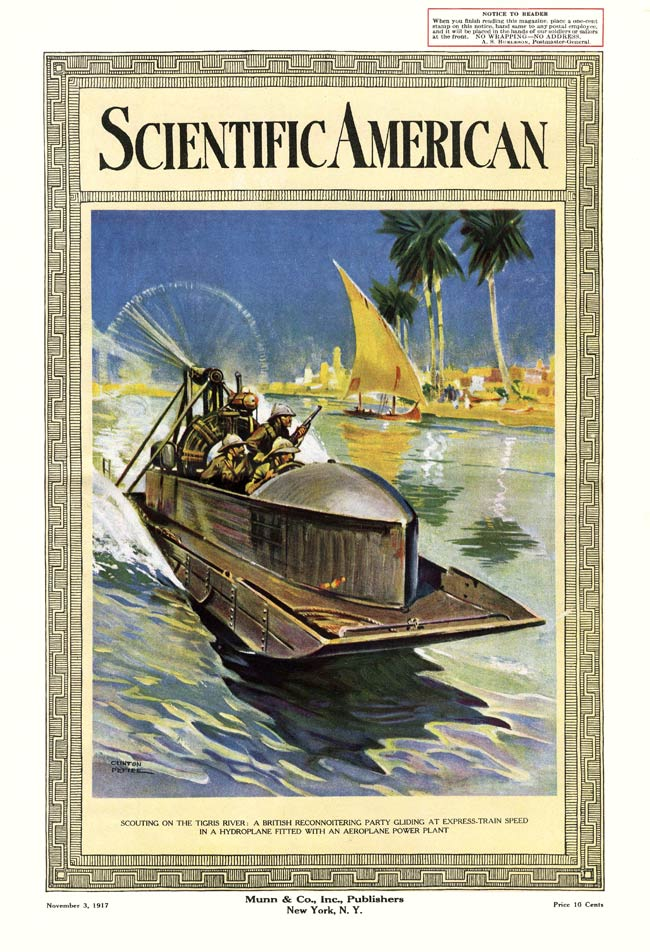 A British Army reconnaissance airboat on the Tigris River during the Mesopotamian Campaign of World War I. This was the cover of Scientific American from November 3, 1917.